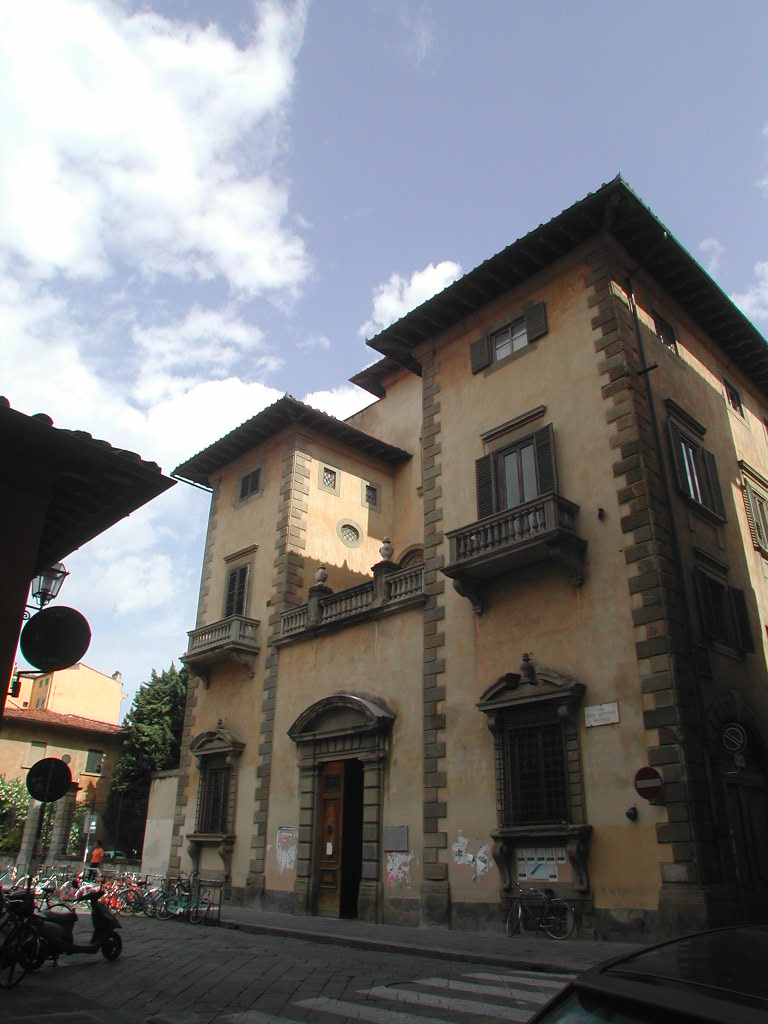 picture of Architecture library, University of Florence